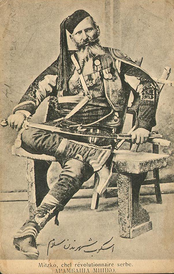 Serbian Chetnik Voivode Micko Krstić (1855-1909).Српски (ћирилица): Војвода Мицко Крстић.